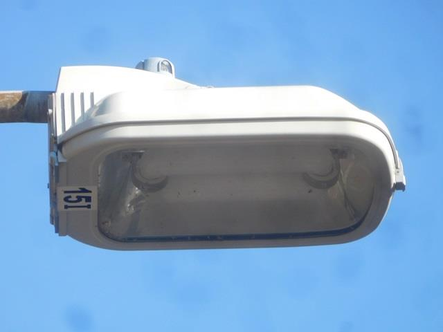 History of street lighting